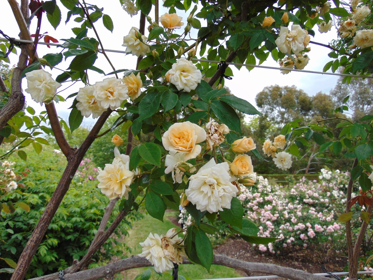 Rose gardens at Old Parliament House, Canberra